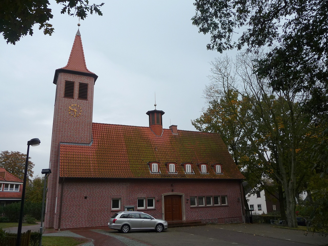 The Evangelical Reformed Church in Rekum (a locality of Bremen), Bremen (state), Germany, is owned and used by a Reformed congregation within the Evangelical Reformed Church – Synod of Reformed Churches in Bavaria and Northwestern Germany.